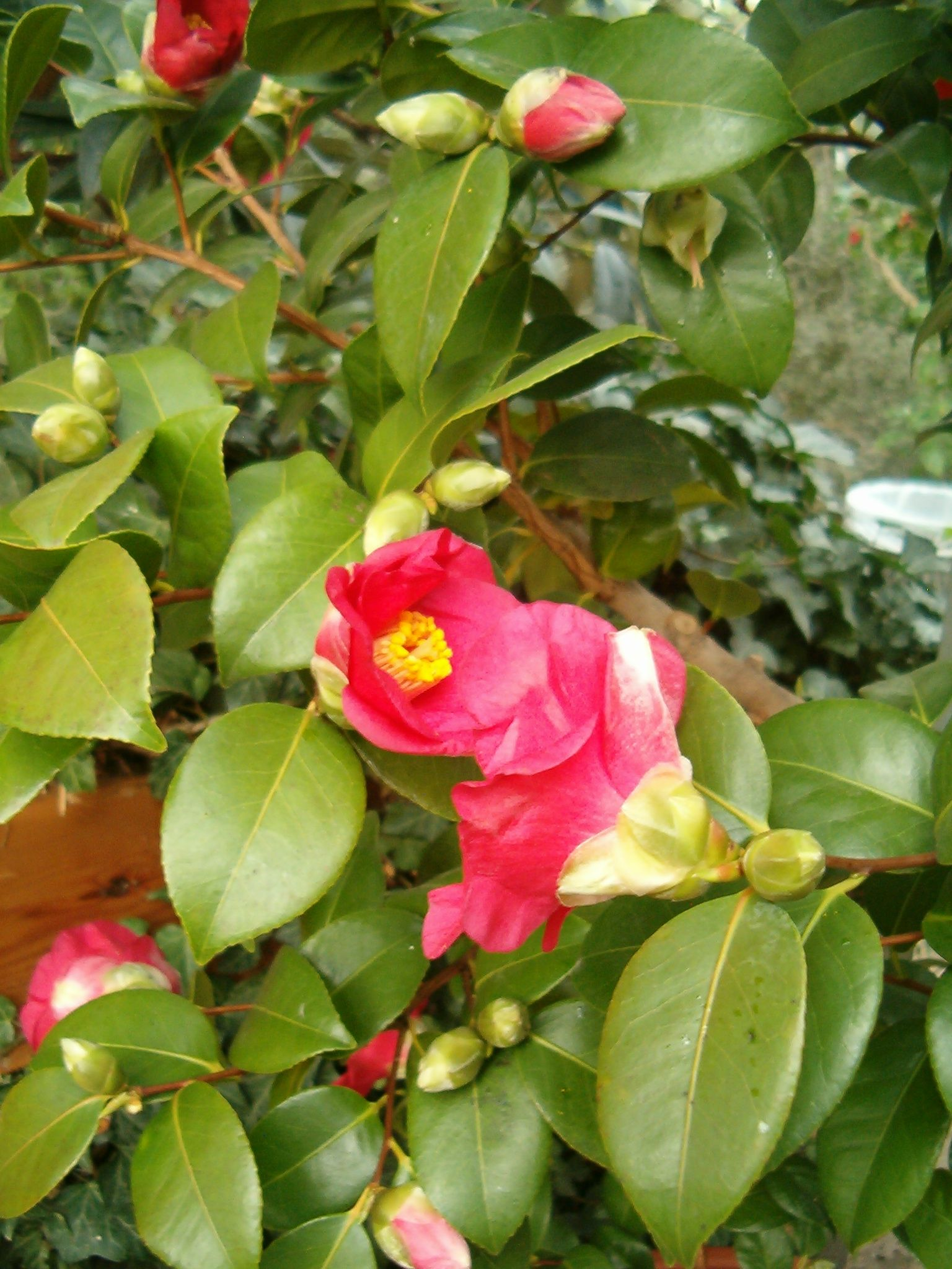 Location: Botanical Gardens Berlin Dahlem